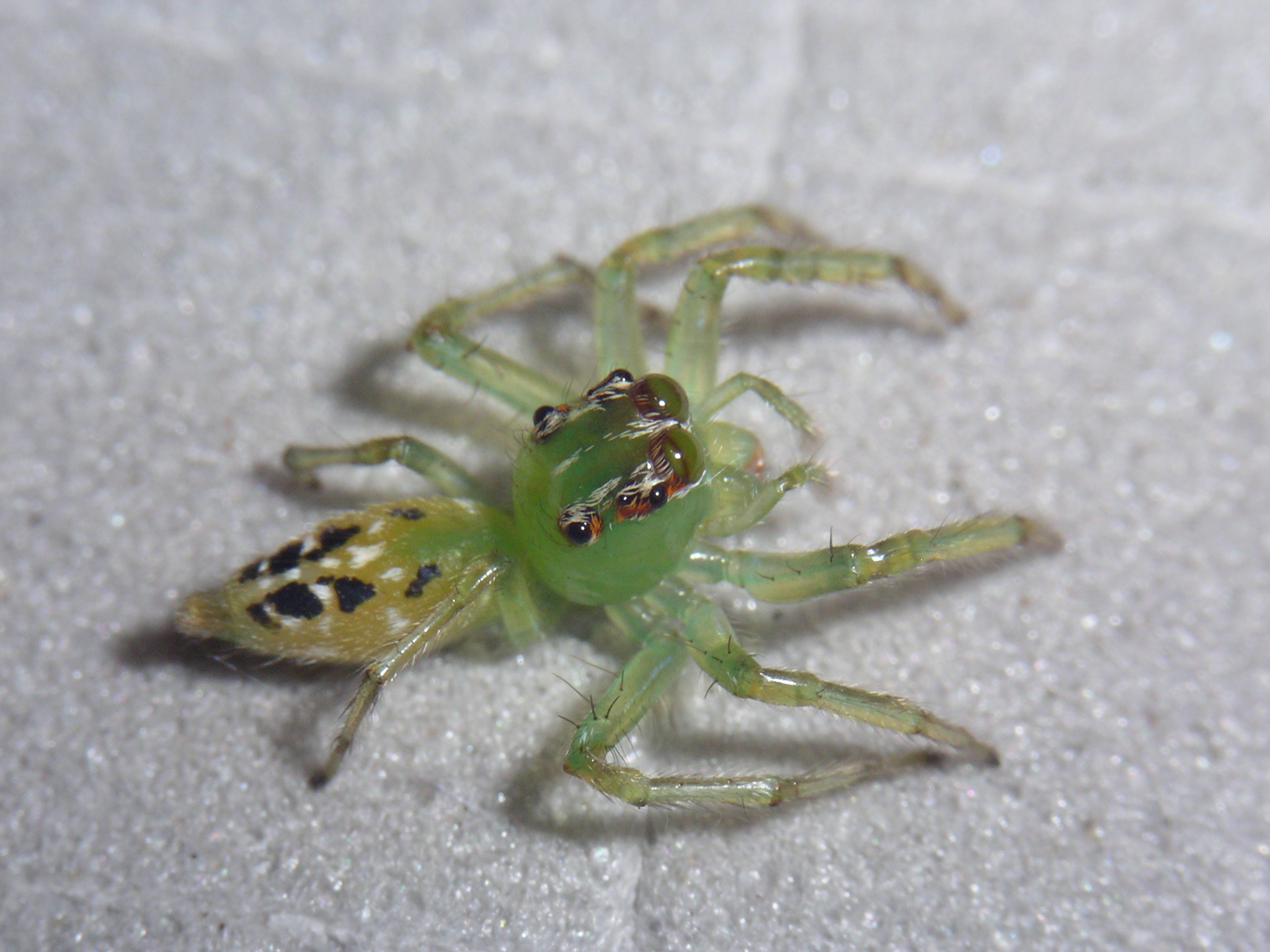 Acragas longimanus female (ECU11-6156) — ECUADOR: ORELLANA: Yasuní Res.Stn.area, Lagunas Trail; day-old treefall 0.6722 °S 76.3994 °W